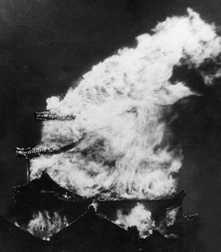 Burning Nagoya Castle (Author's original scan image)